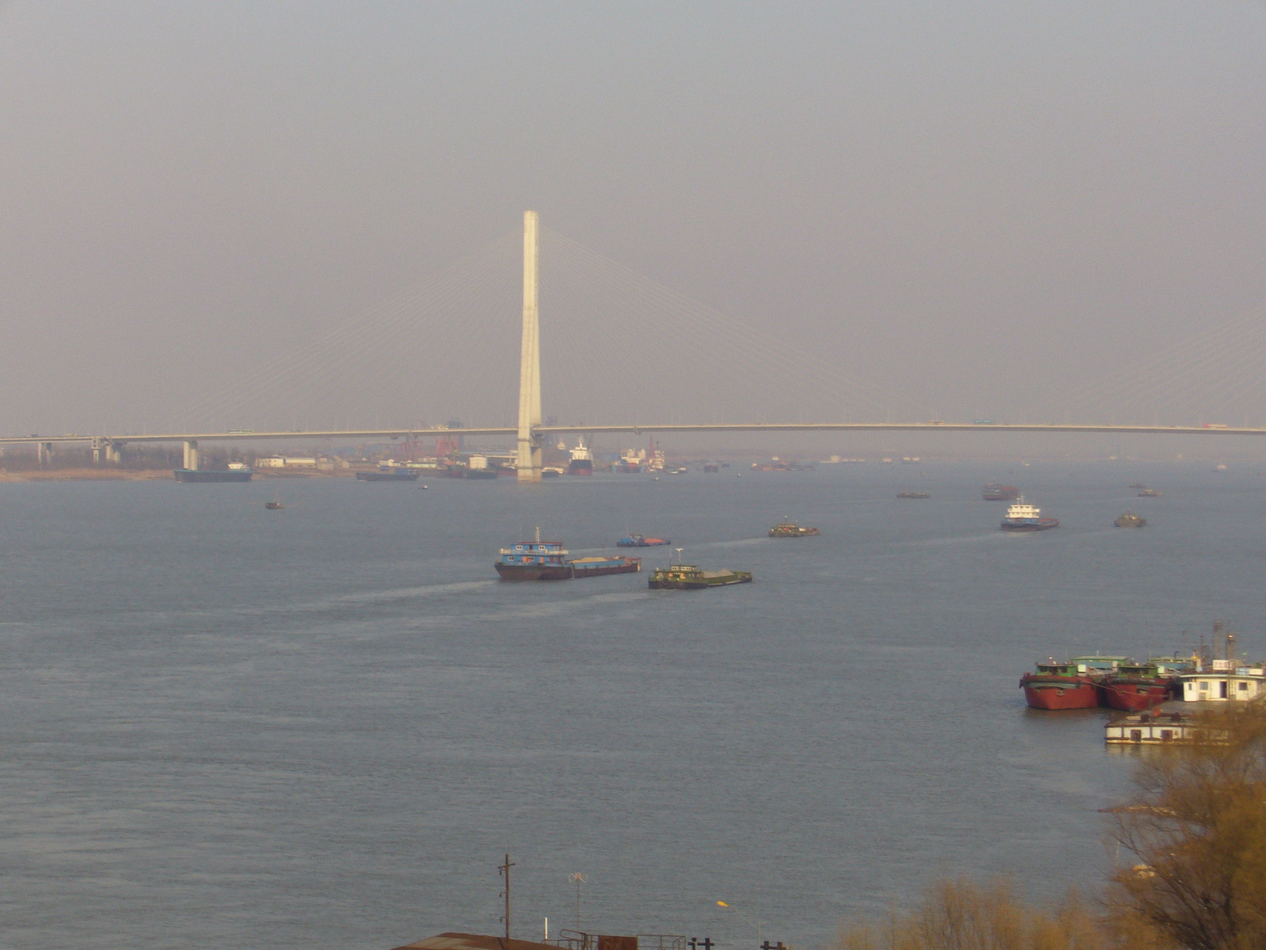 The Second Nanjing Yangtze Bridge over the Yangtze River